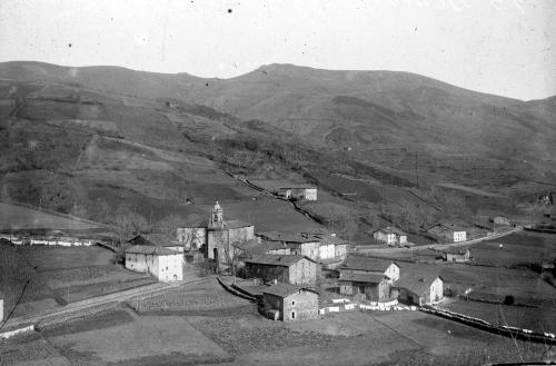 Historical image of Berrobi